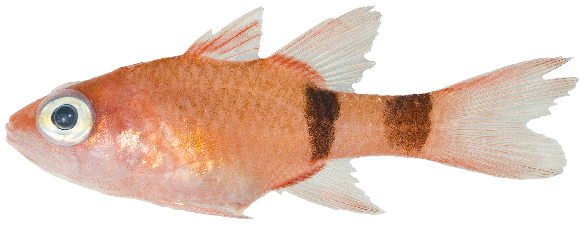 Apogon robinsi Böhlke & Randall, 1968 —roughlip cardinalfish, 35.5 mm SL. Photo by JT Williams.